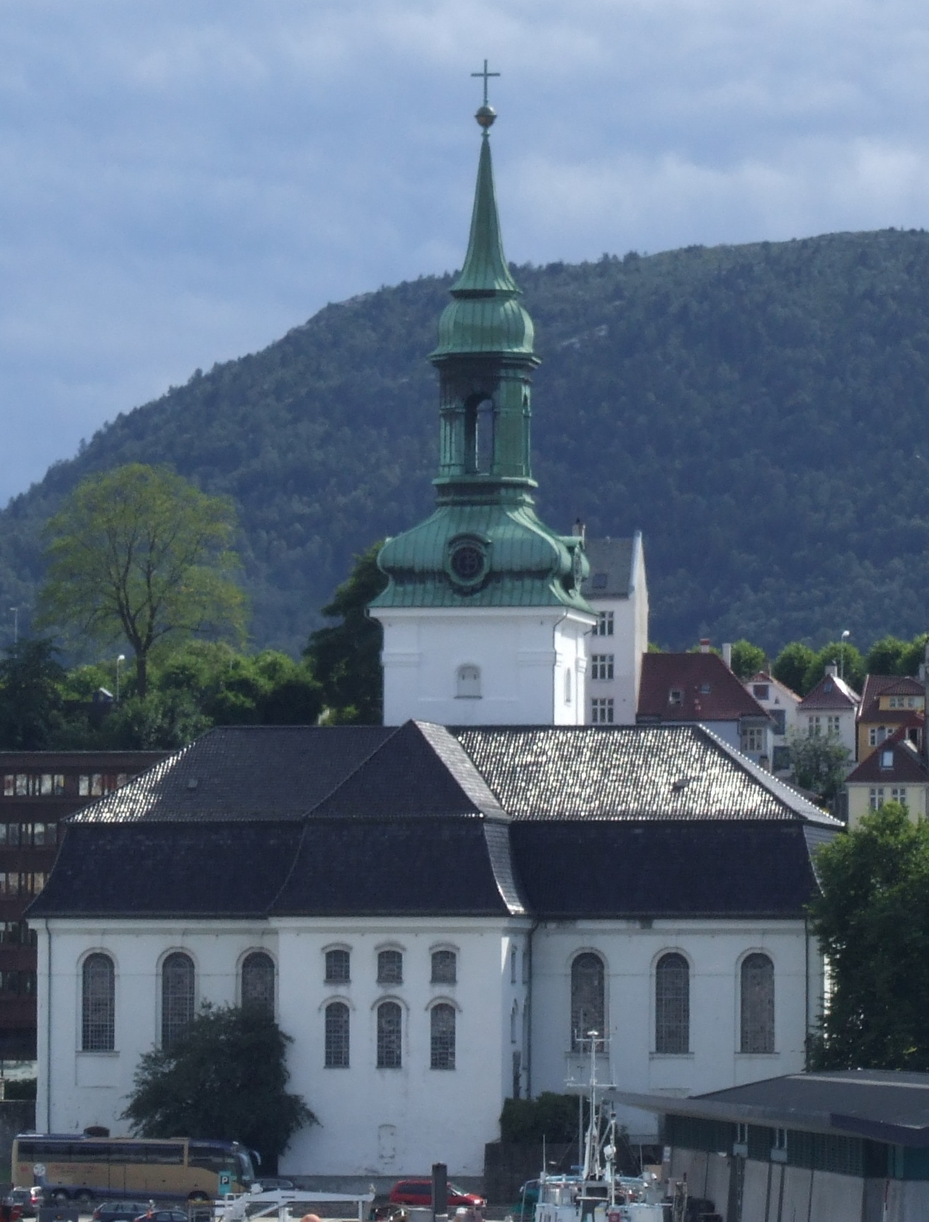 Nykirken church in Bergen, Norway